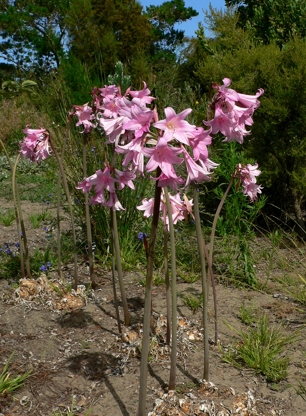 Photo of Amaryllis belladonna at the San Francisco Botanical Garden